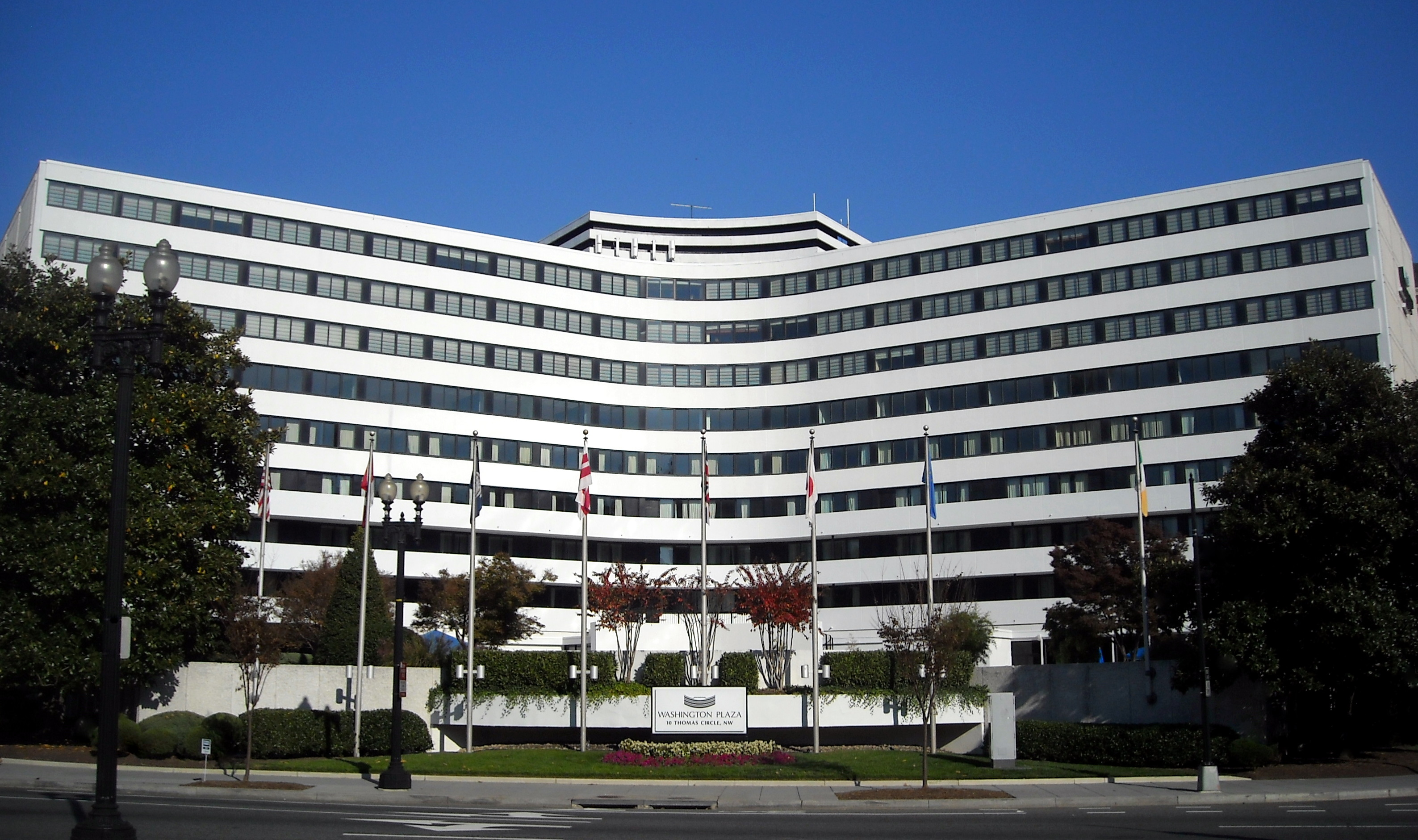 The Washington Plaza Hotel located at 10 Thomas Circle, N.W., (between M Street and Vermont Avenue) in the Logan Circle neighborhood of Washington, D.C. The Modernist-style hotel was built in 1962 to the designs of architect Morris Lapidus.